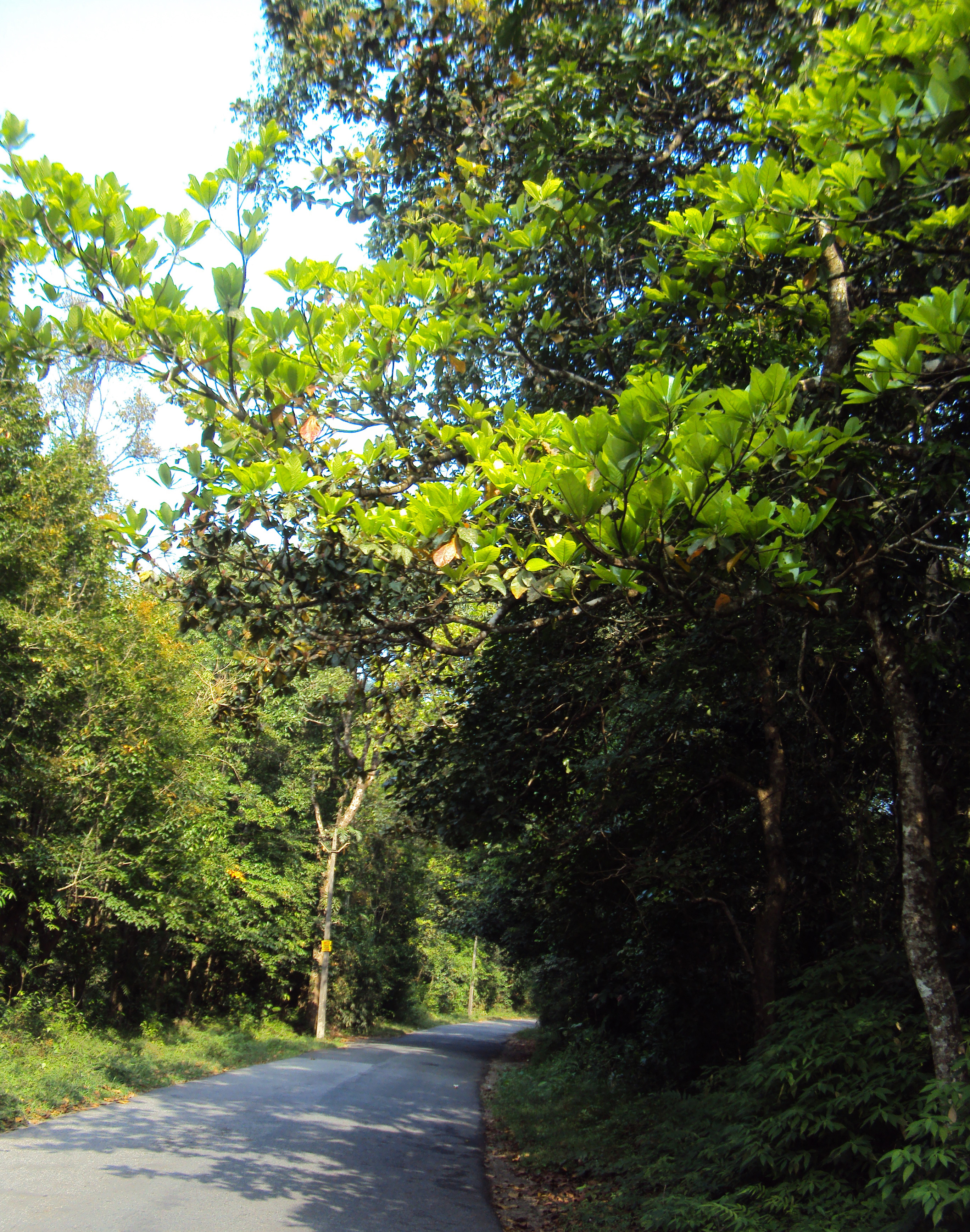 Elaeocarpus tuberculatus Roxb. Elaeocarpaceae . Seen at Indomalaysia; in the Western_Ghats- South and Central Sahyadris.